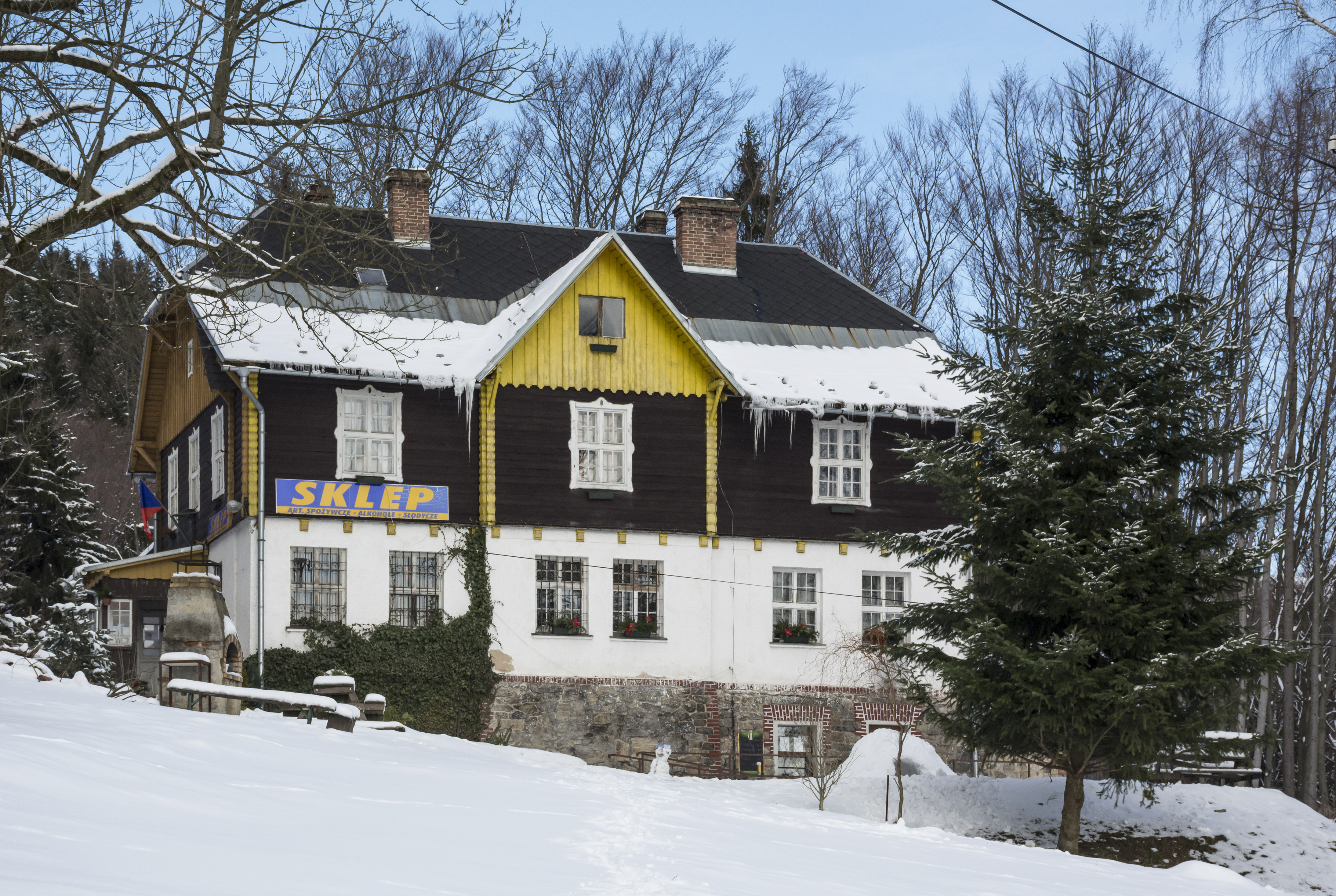 House in Travná (Javorník)